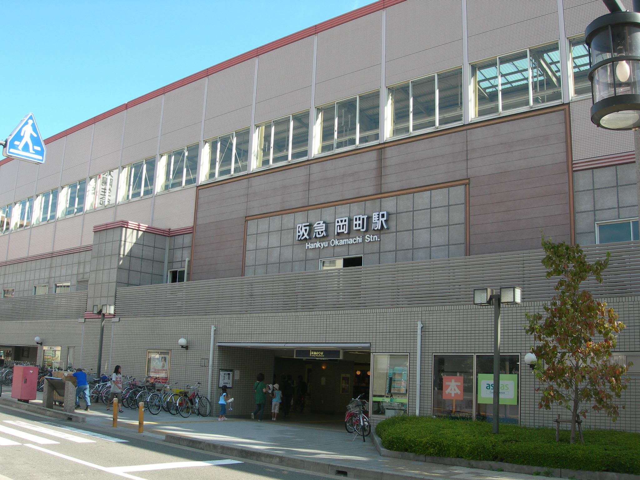 West gate of Okamachi Station, Hankyū Takarazuka Main Line.